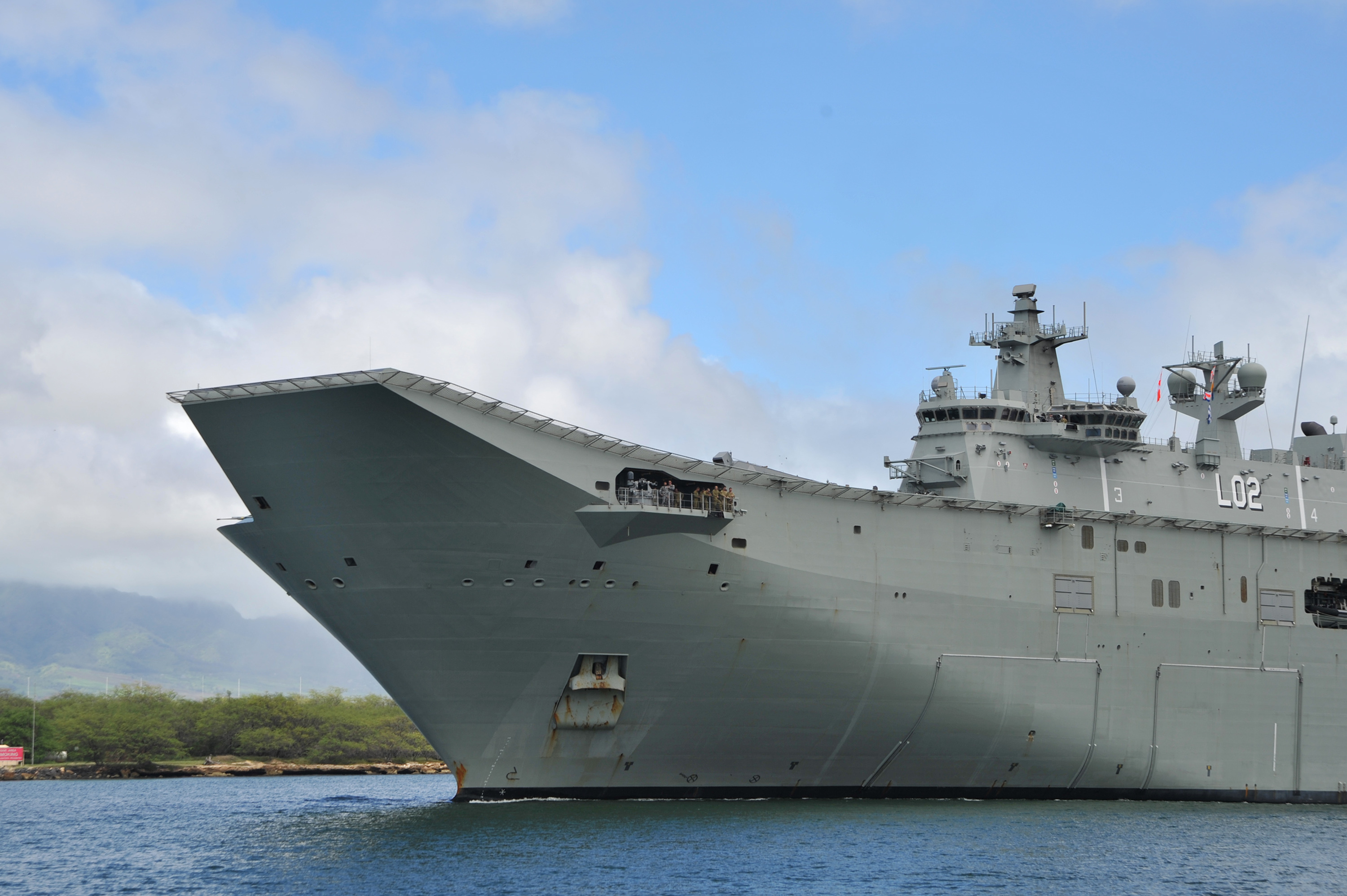 160806-N-IU636-083 PEARL HARBOR (Aug. 6, 2016) Royal Australian Navy Canberra class amphibious ship HMAS Canberra (L02) departs Joint Base Pearl Harbor-Hickam following the conclusion of Rim of the Pacific 2016.